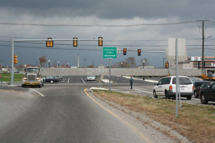 Oversize (long) bridge beam makes turn